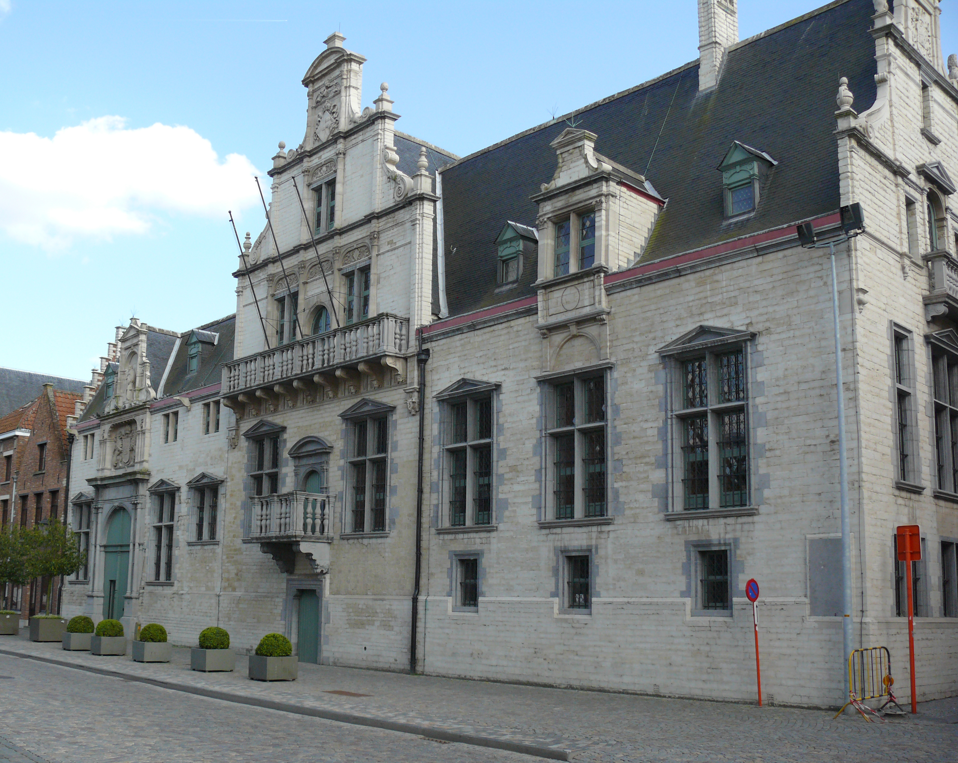 The Hof Van Savoye (Court of Savoy) or the Palace of Margaret of Austria is a 16th century building in Mechelen